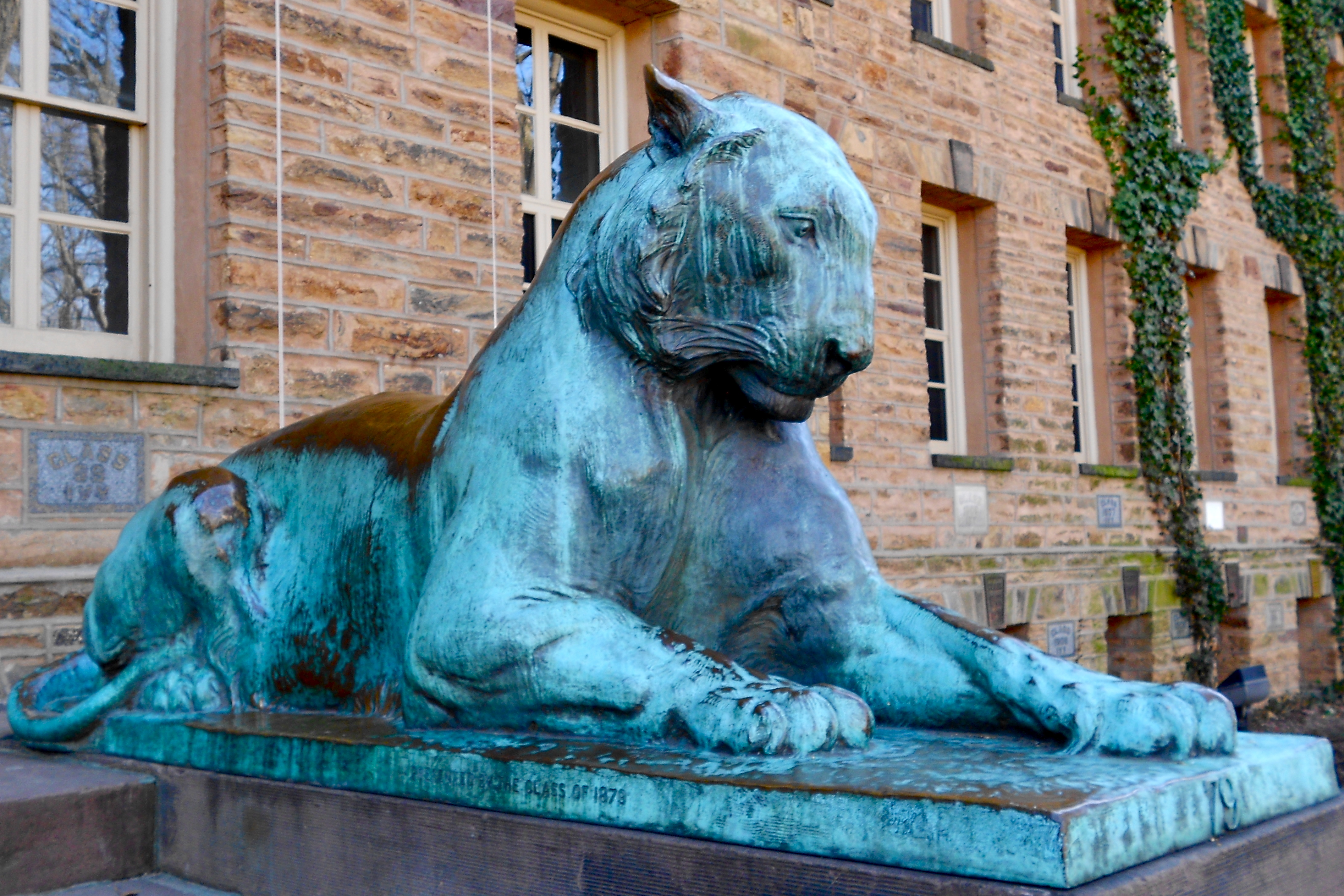 Tiger in front of Nassau Hall, Princeton University. One of a pair given by the Class of 1884.